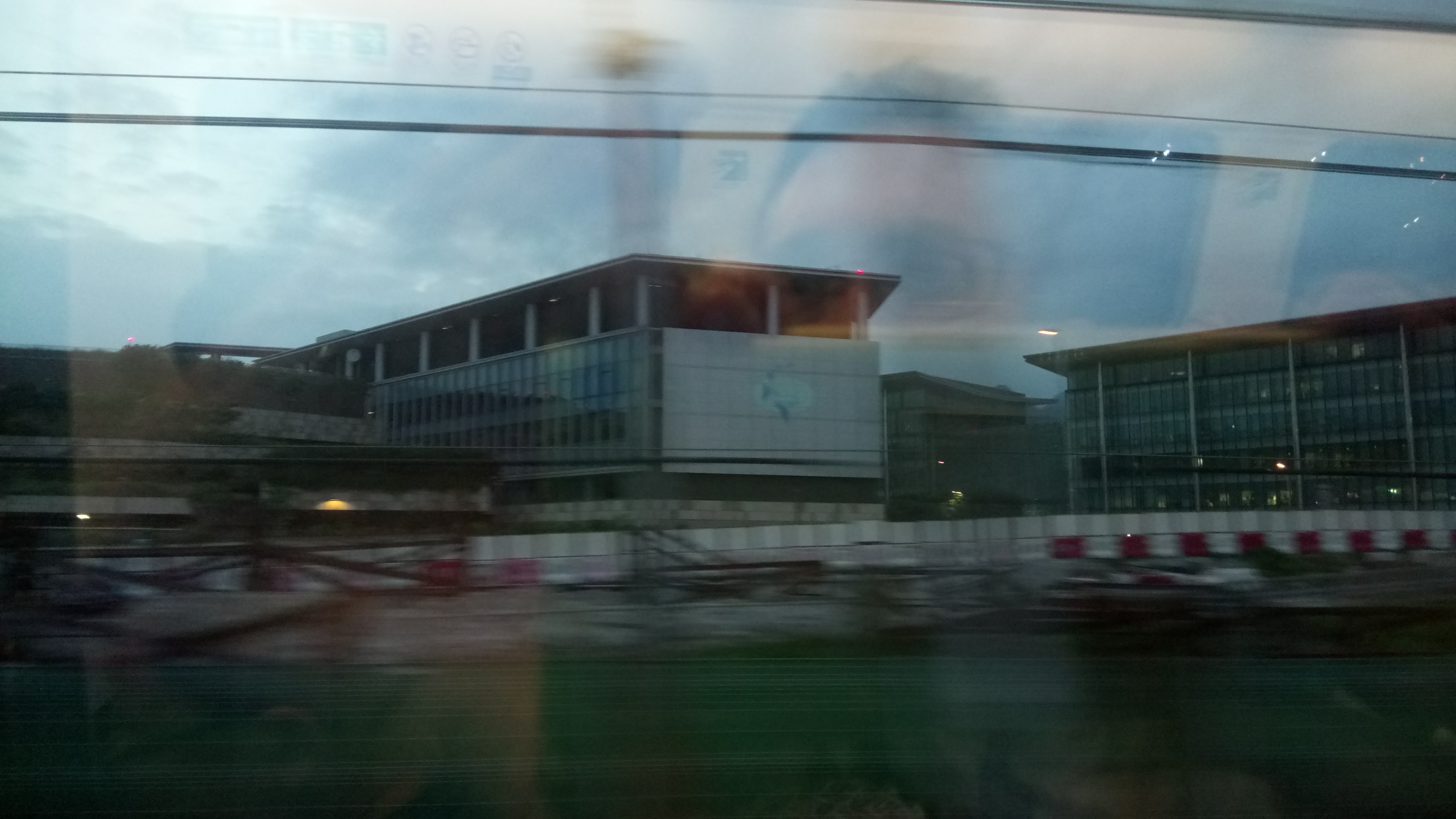 Civil Aviation Department (Hong Kong) head office